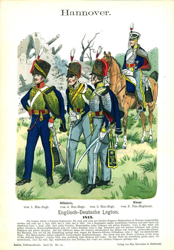 Hannover: Englisch-Deutsche Legion. Offiziere vom 1., 2. und 3.Husaren-Regiment. Husar vom 3. Husaren-Regiment. 1813